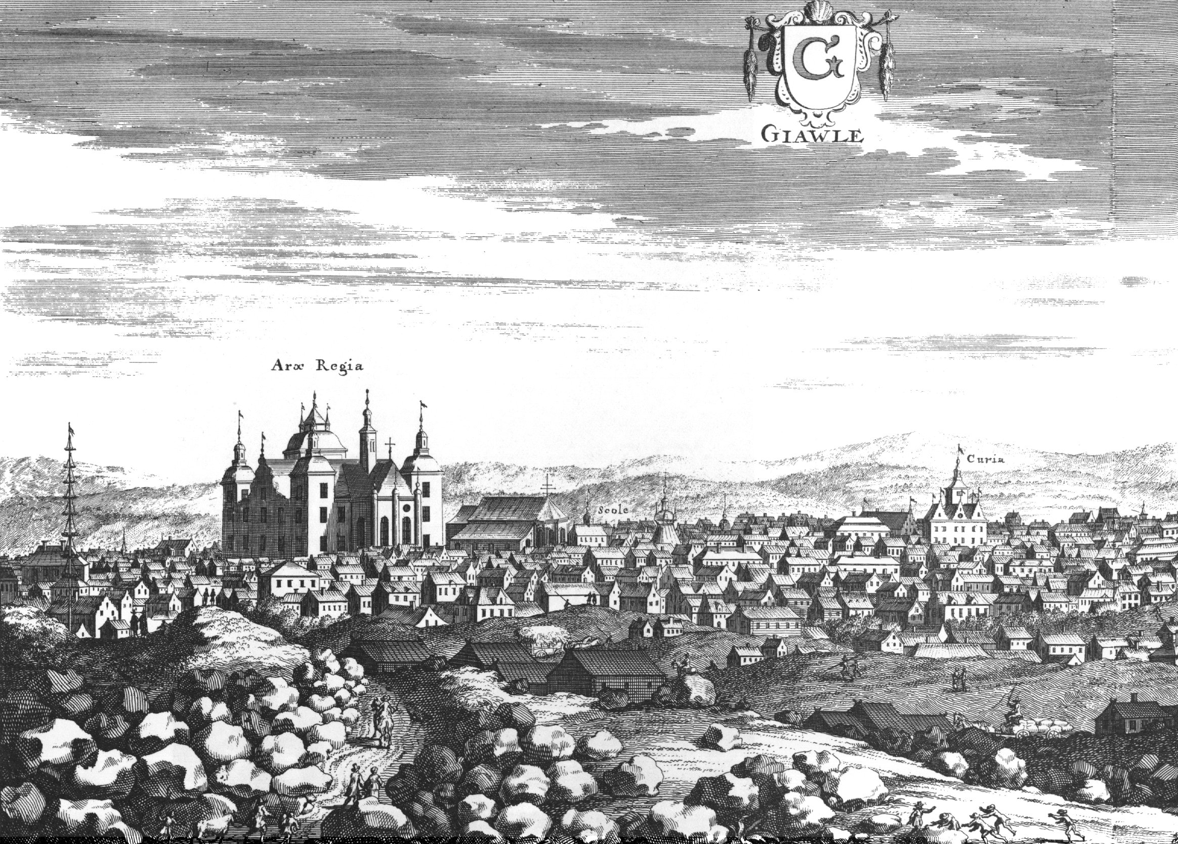 The city of Gävle in Sweden. Engraving from Suecia antiqua et hodierna.